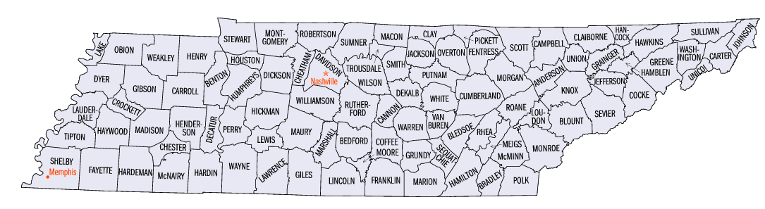 Map of Tennessee counties. White border.